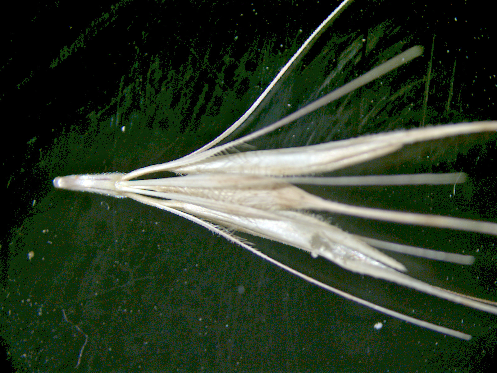 Disarticulated cluster of three spikelets from Hordeum murinum. Light macrograph Source: Curtis Clark